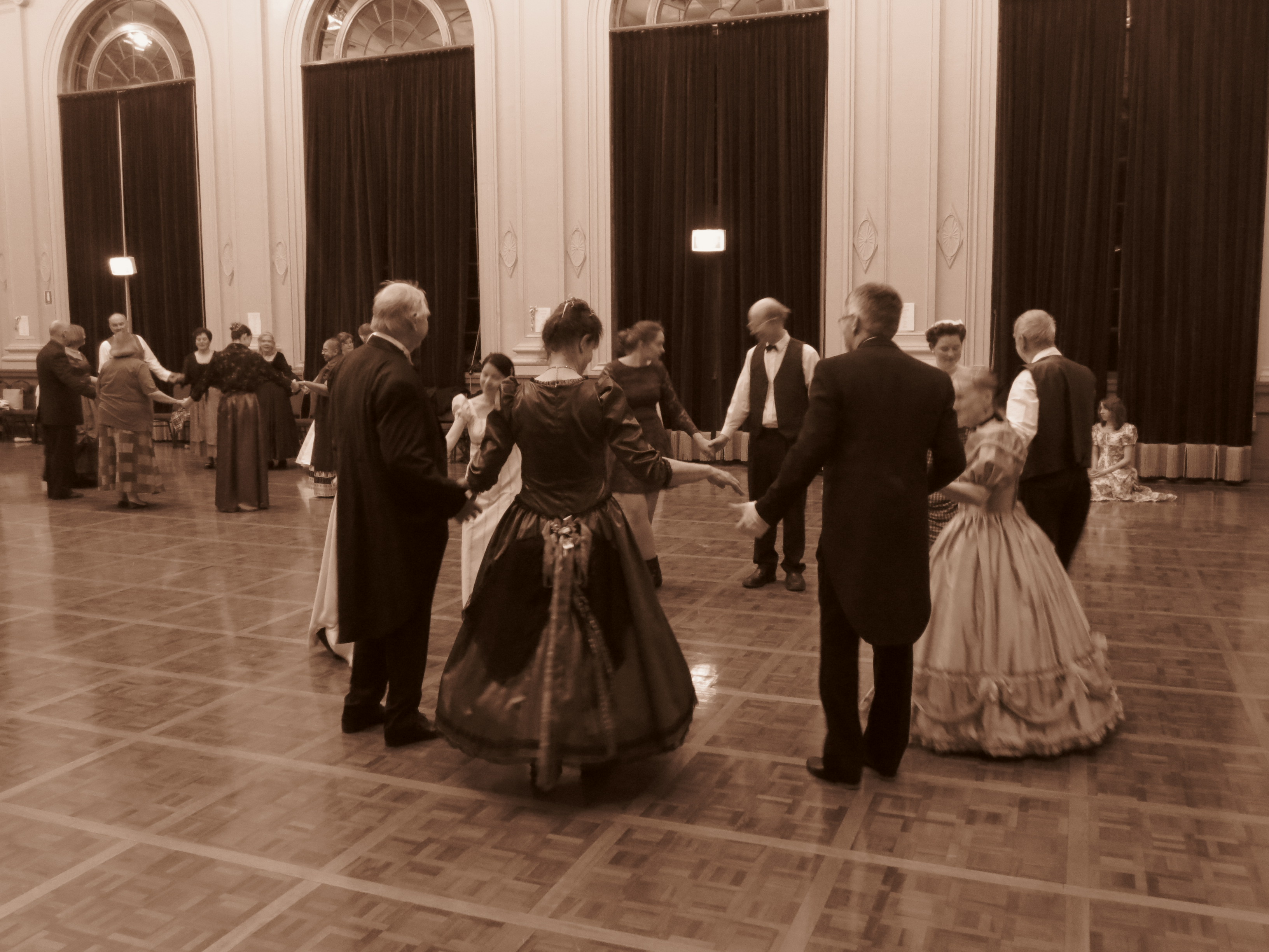 Set dancing at Colonial Ball at the Albert Hall, Canberra presented by the Monaro Folk Society Sepia setting (2016